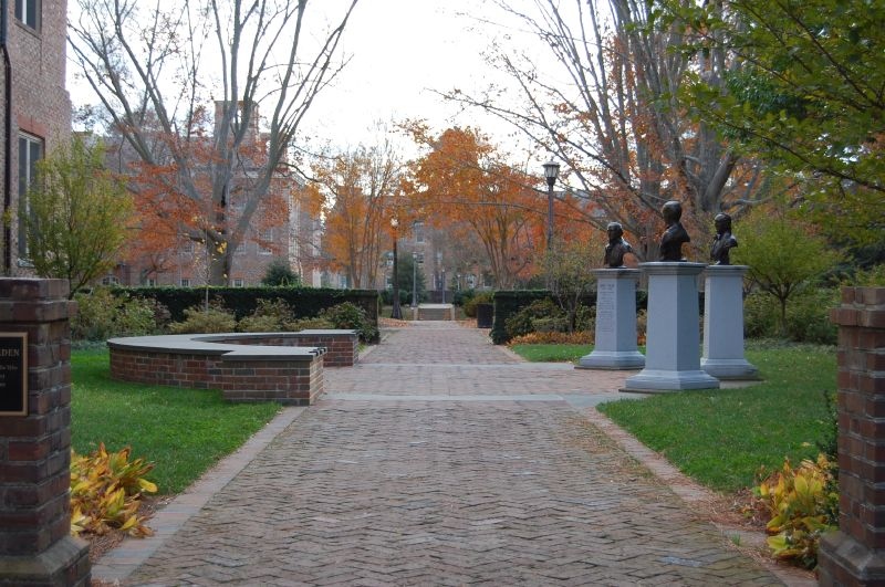 Tyler Garden on the campus of the College of William and Mary.